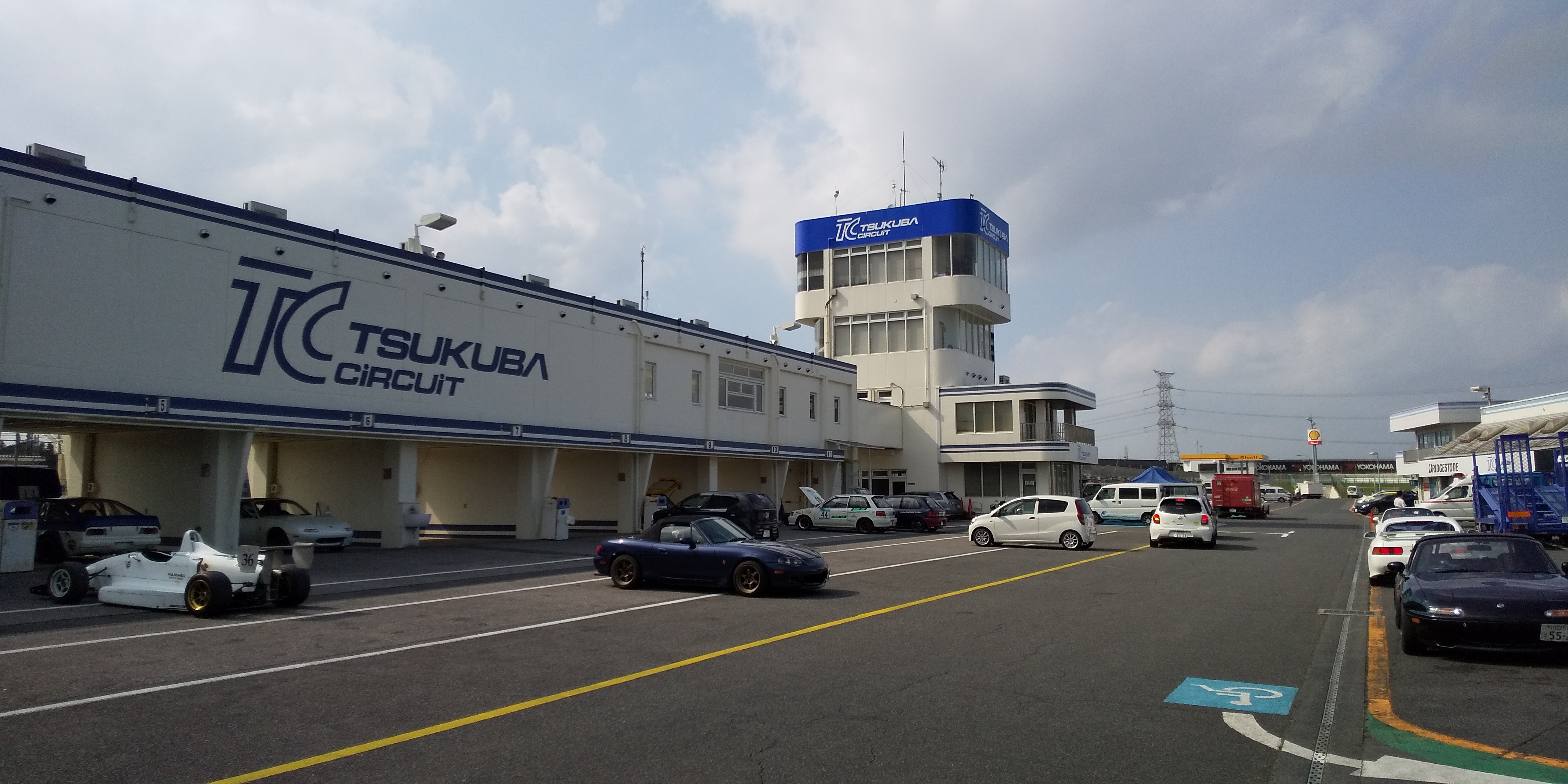 There are 31pits on TC2000 track. In this photo, pits(1-11), Salon, Control tower are contained.